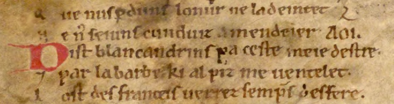 La Chanson de Roland (Bodleian Library, MS Digby 23, part 2), detail showing "AOI"